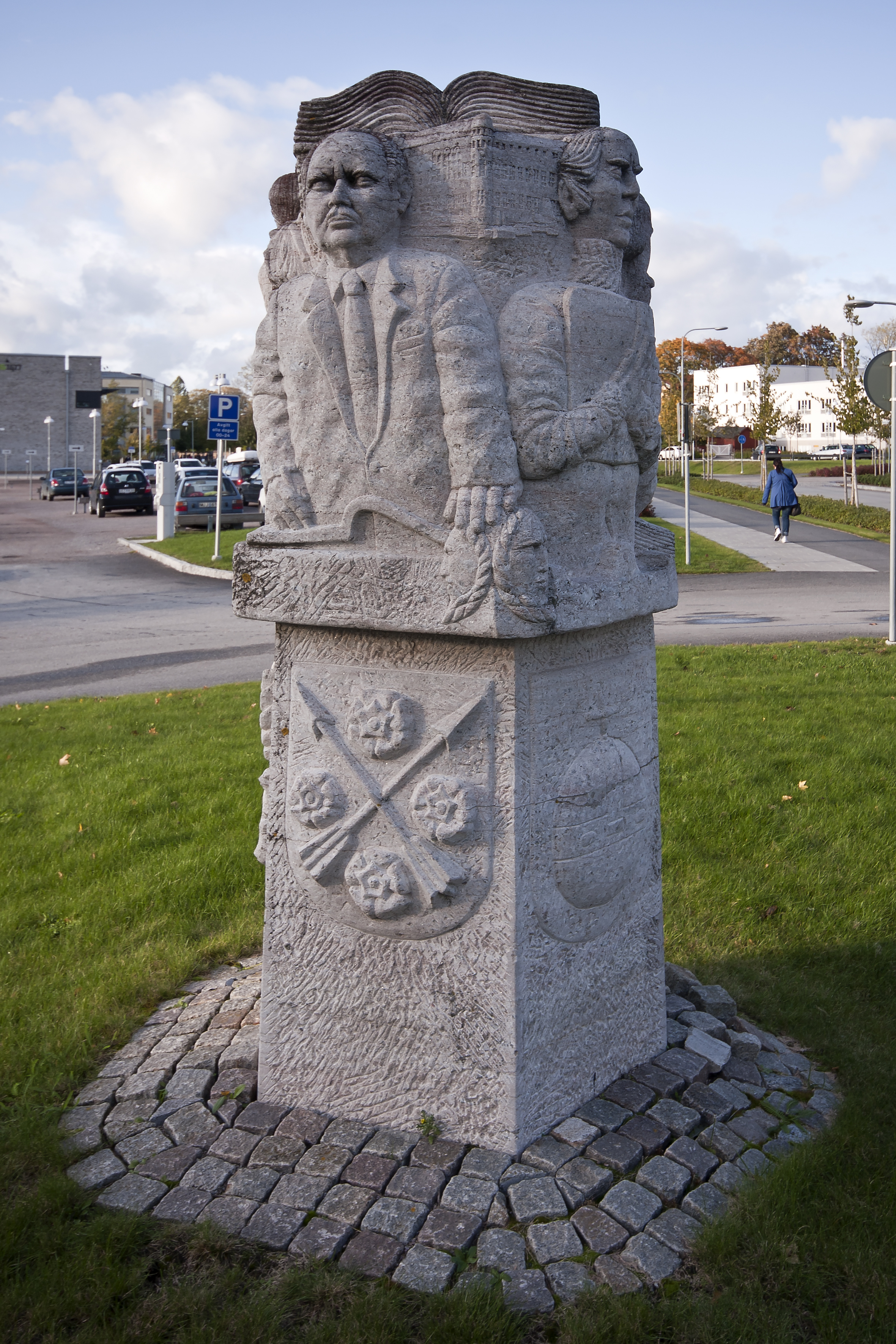 Sculpture "Clios barn" (Children of Clio) by István Varga, public work of art at the Uppsala regional state archive.